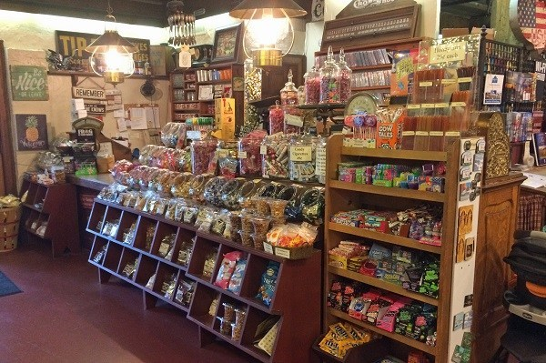 Candy and more